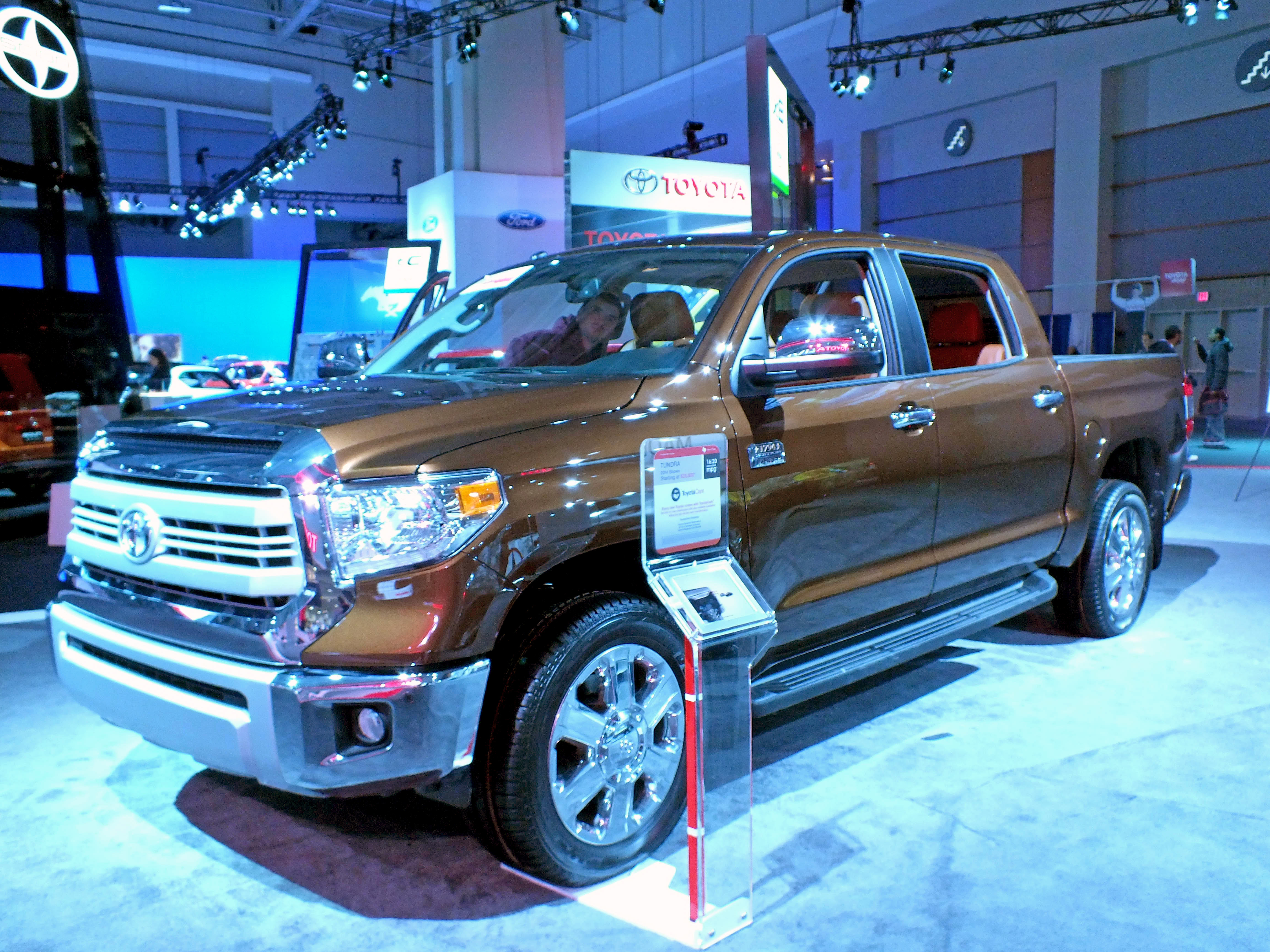 The top-of-the-line "1794 Edition" of the 2014 Toyota Tundra. Photographed at the Washington Auto Show.